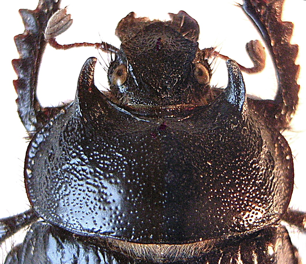 Pronotum of Typhaeus typhoeus